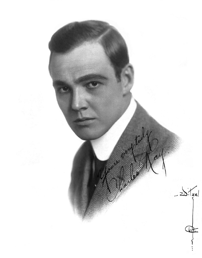 Autographed portrait of American actor Charles Ray (1891–1943) by Albert Witzel (Witzel Studios, LA)